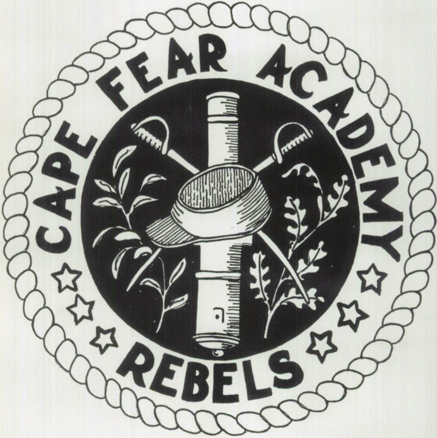 Cape Fear Academy Athletics Rebels icon